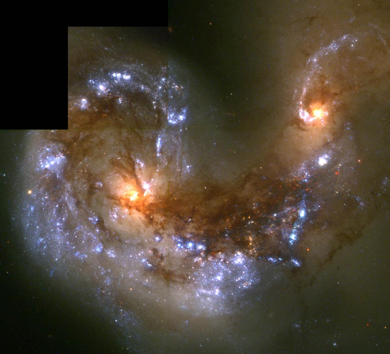 The Antennae Galaxies